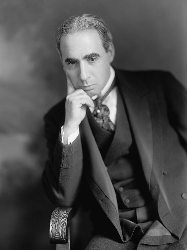 Romulo S. Naon